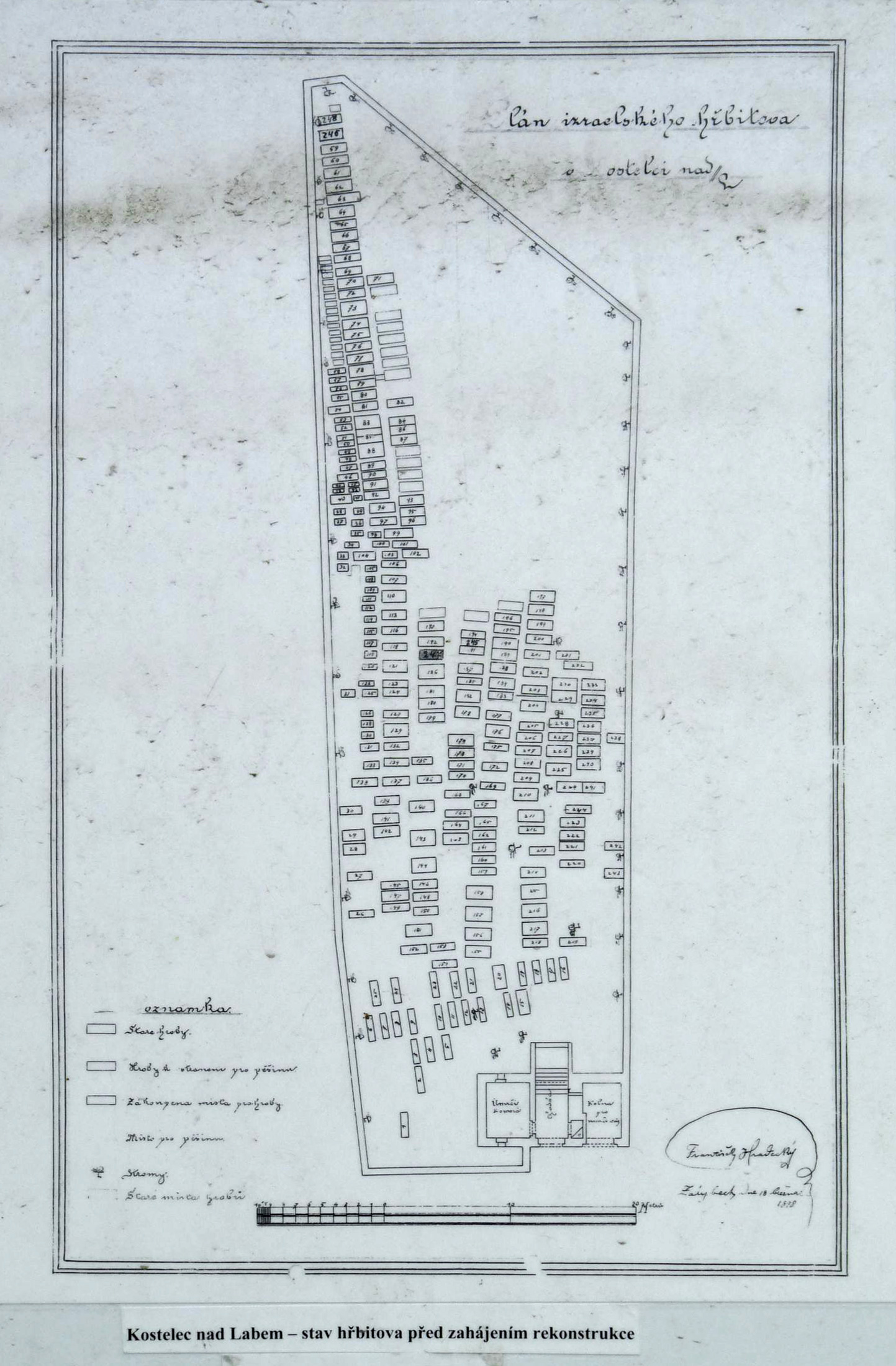 Jewish cemetery in the town of Kostelec nad Labem, Mělník District, Central Bohemian Region, Czech Republic - cemetery plan.